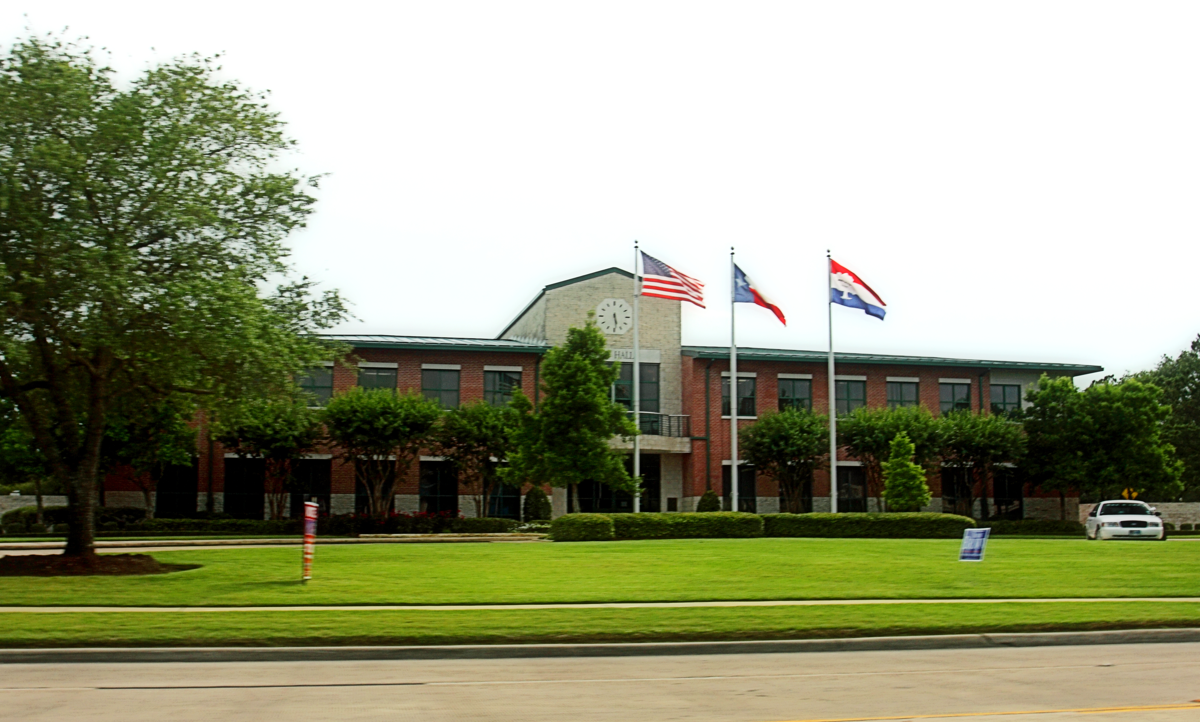 City Hall. Friendswood, Texas, USA, 77546